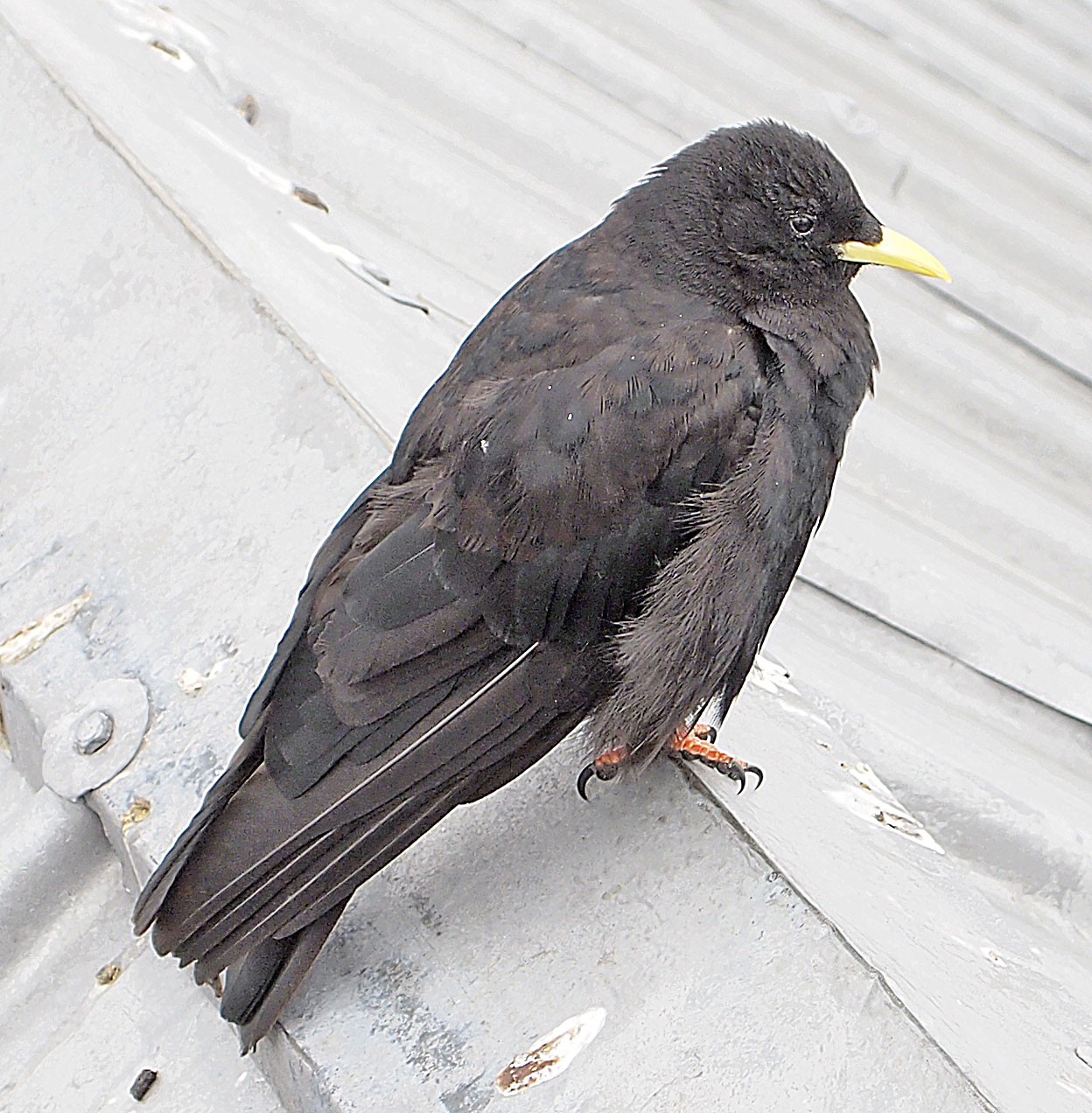 Black bird with yellow peak standing on a building at the mountain Zugspitze in Garmisch-Partenkirchen, Germany.This photograph was taken with an Olympus E-PL1